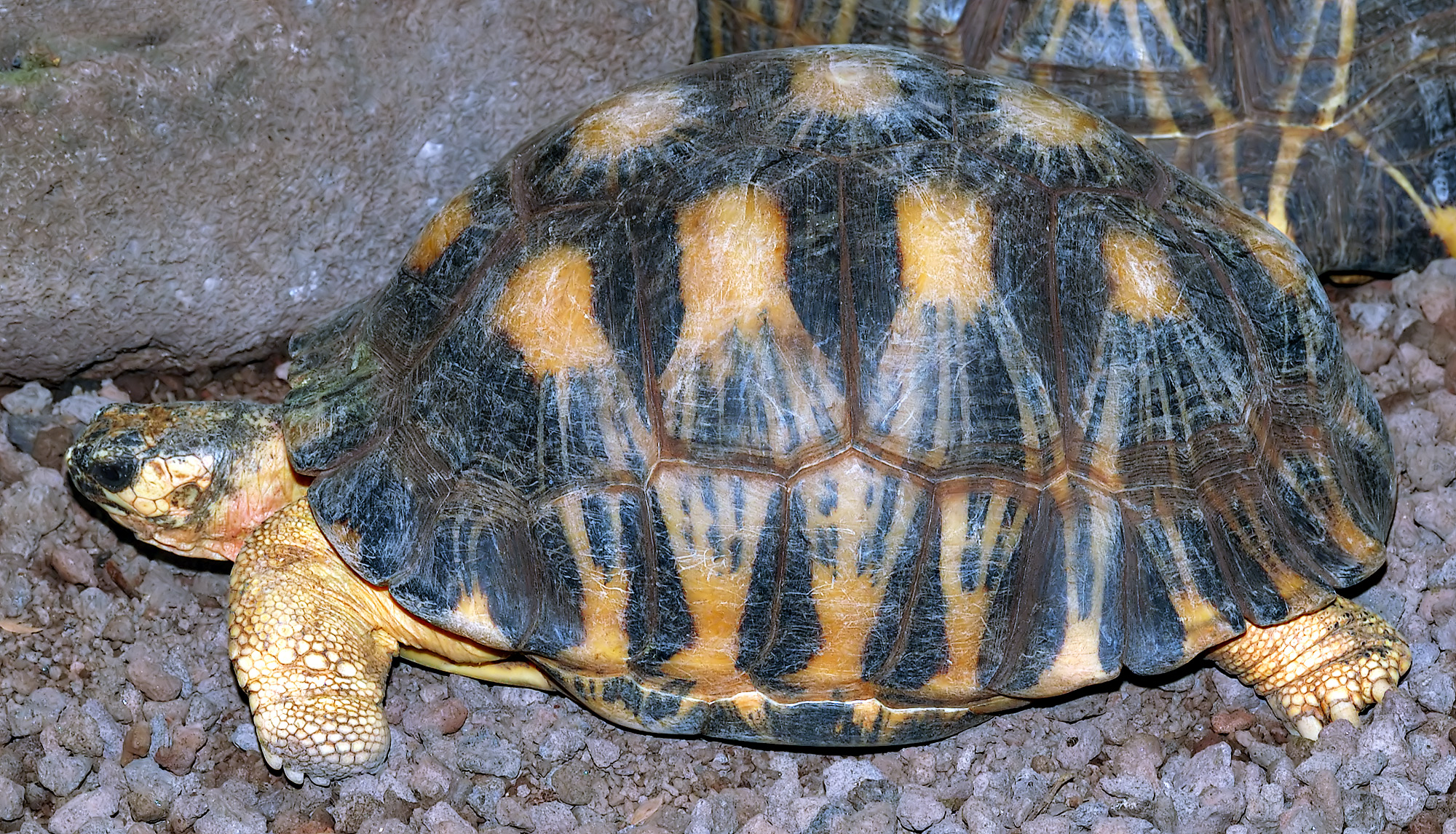 This image shows a Radiated Tortoise (Geochelone radiata).